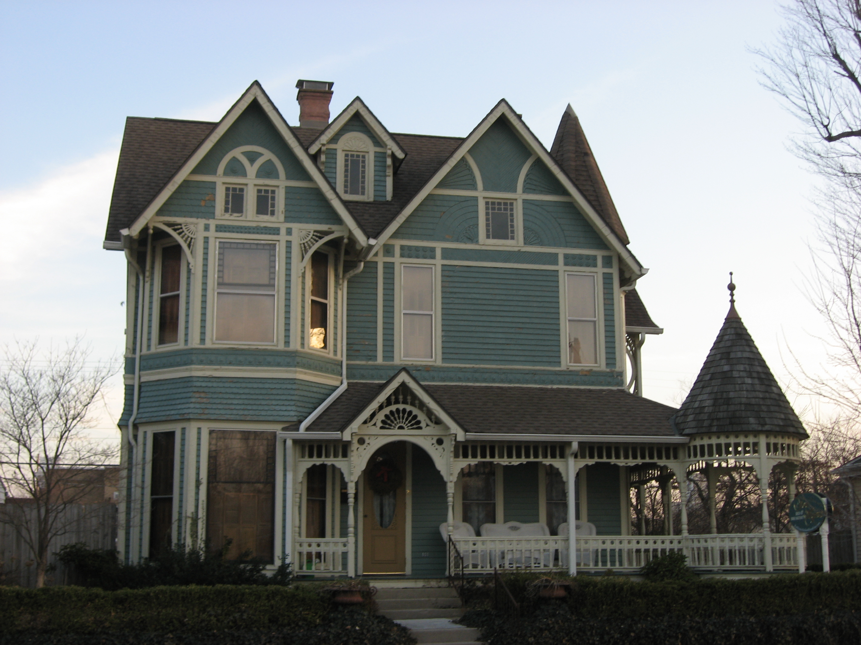 Front of the Charles Barr House, located at 25 W. North Street in Greenfield, Indiana, United States. Built in 1893, it is listed on the National Register of Historic Places, and it is part of a Register-listed historic district, the Greenfield Residential Historic District.